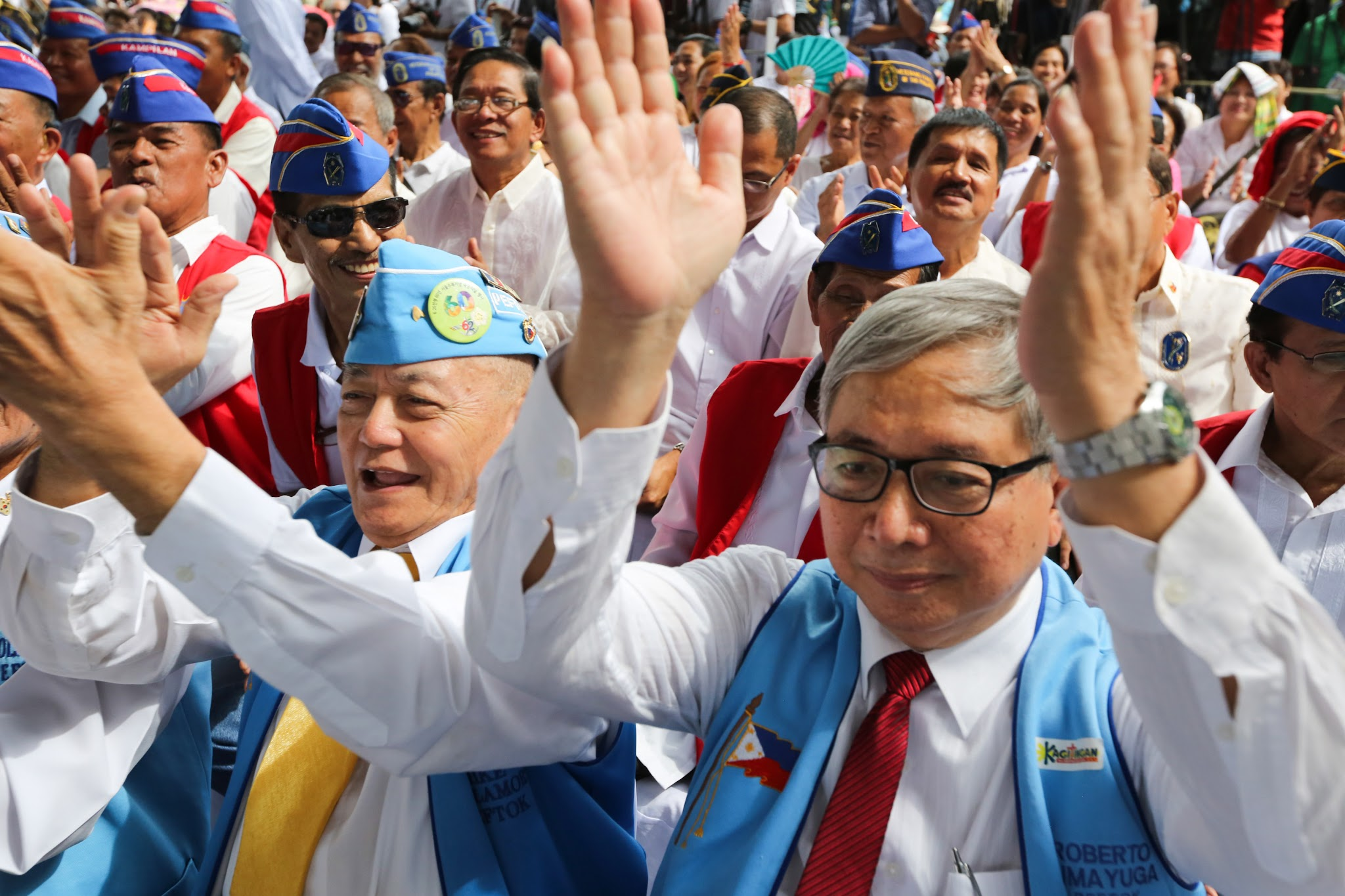 War veterans cheer on as President Rodrigo R. Duterte announces the release of the P1.2-billion budget for Army retirees during the celebration of the National Heroes’ Day at the Libingan ng mga Bayani in Taguig City on August 29.